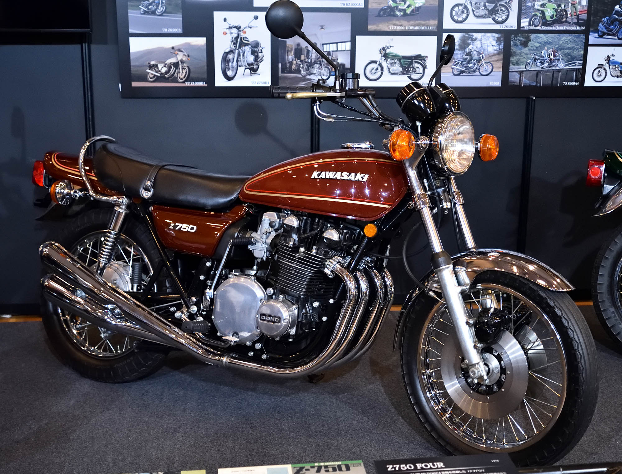 Kawasaki Z750Four (1976)